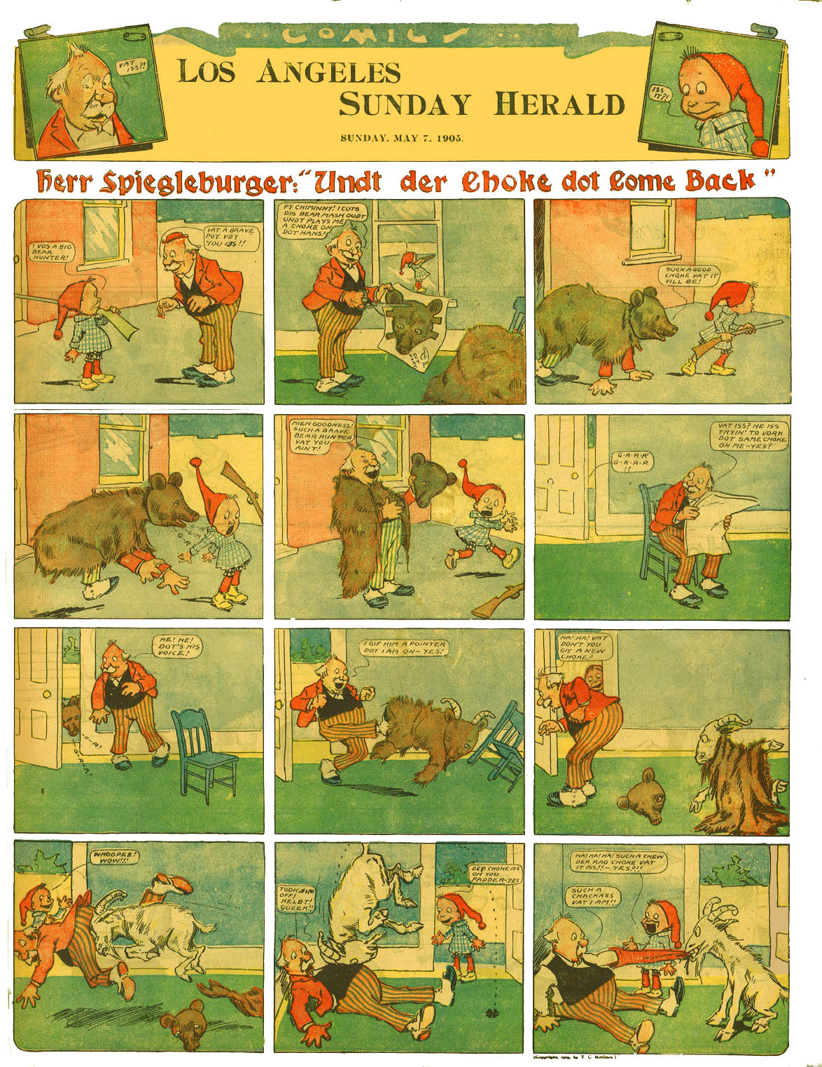 Comic Strip. Single strip of long-run series